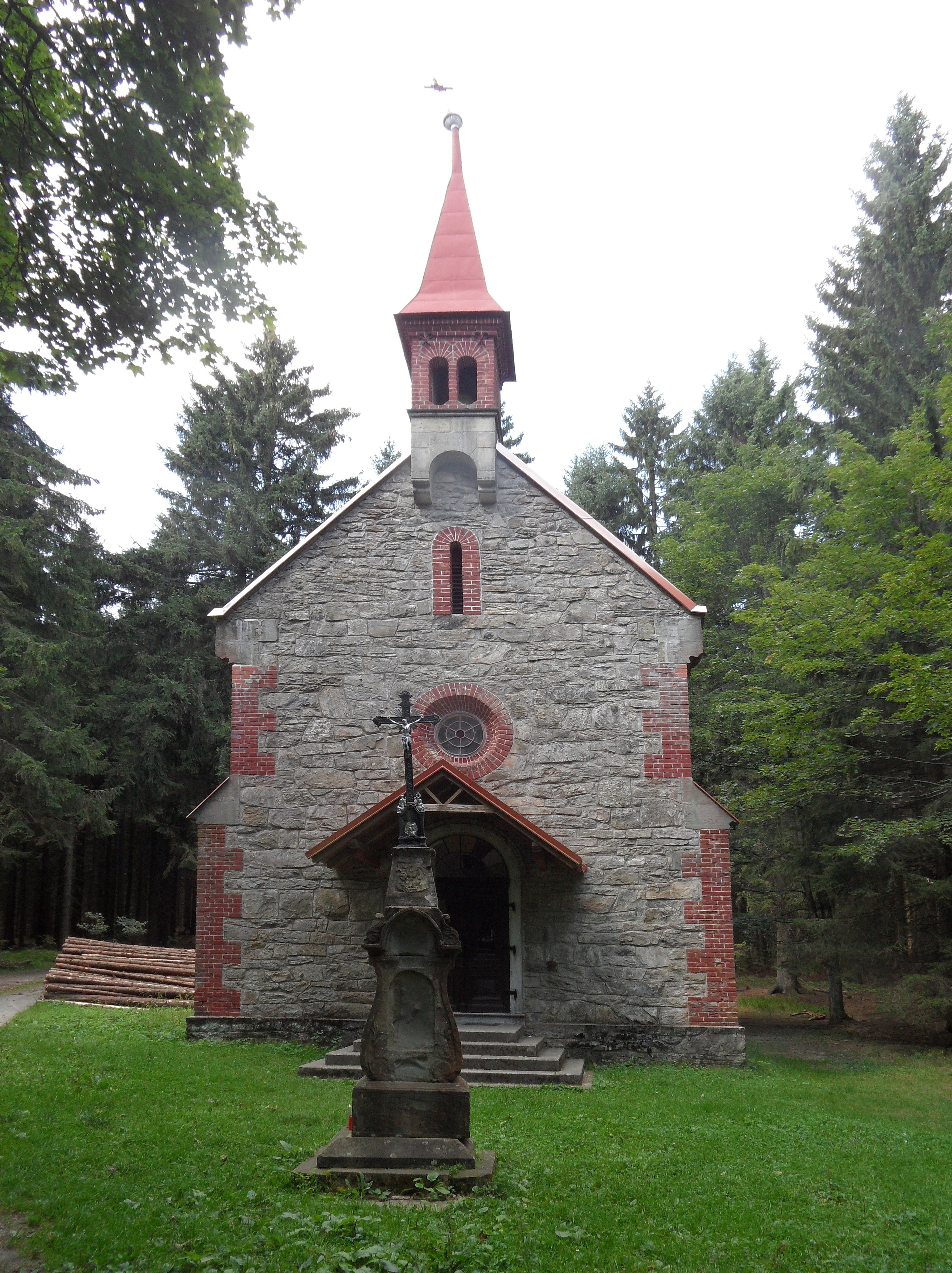 Vysoký Potok: Pilgrimage Chapel of the Holy Trinity: Overview. Šumperk District, the Czech Republic.